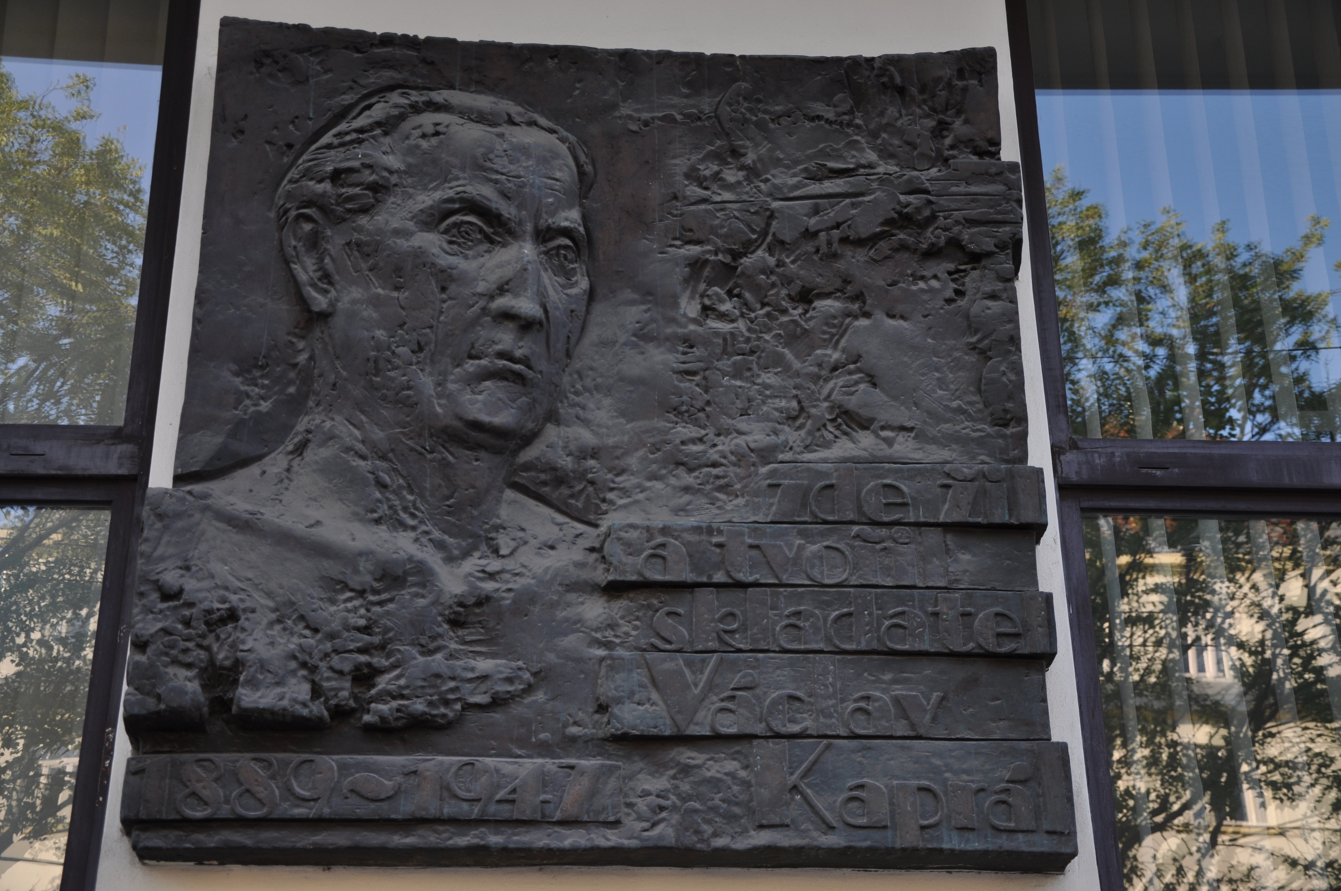 Memorial plaque to Václav Kaprál. There is written in the Czech language on the plaque: Here lived and composed composer Václav Kaprál 1889 - 1947